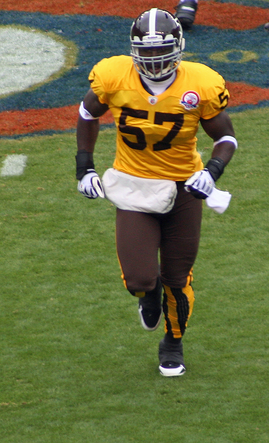 Mario Haggan, a player with the Denver Broncos American football team.